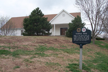 Temple Lot church